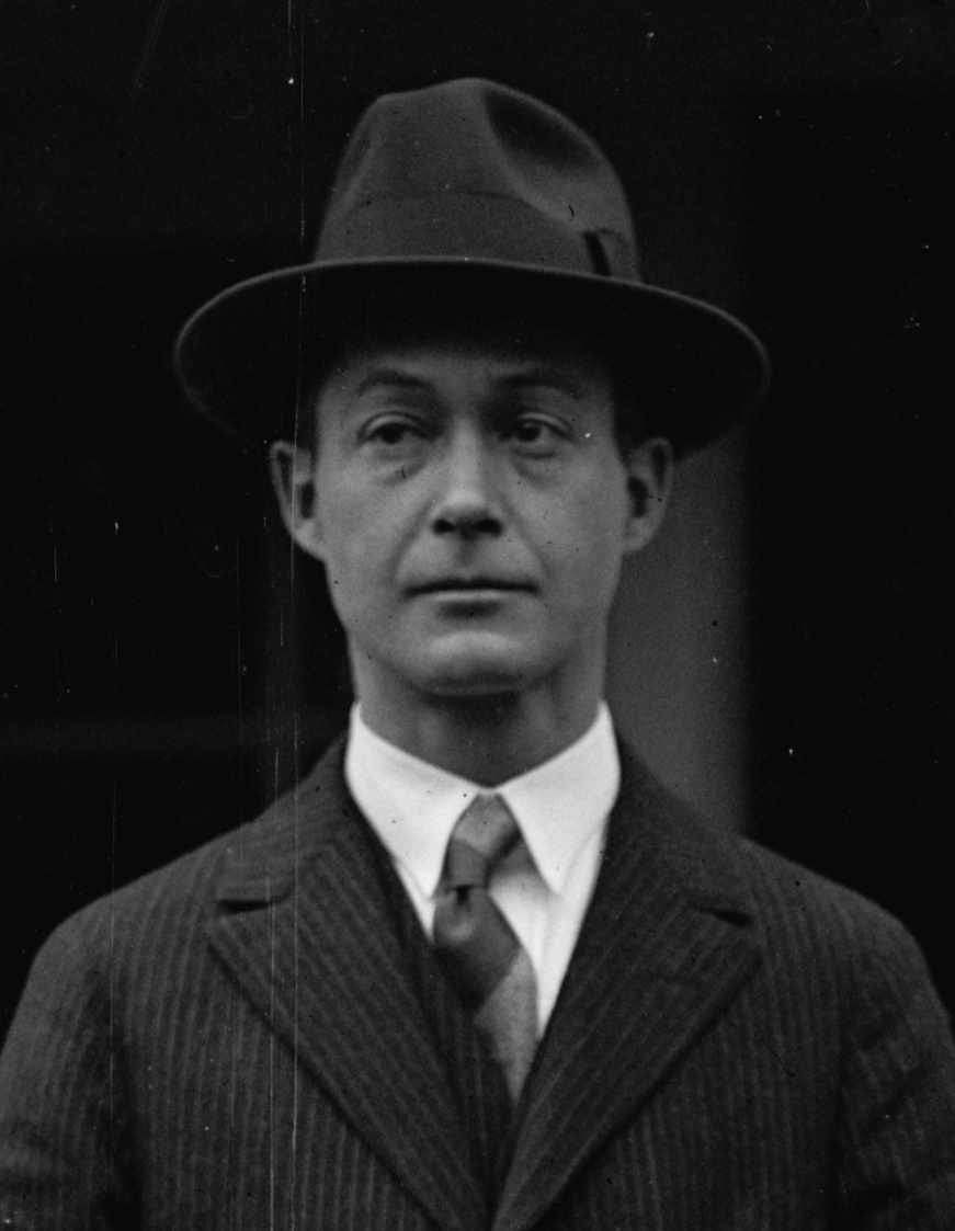 John Van A. MacMurray.